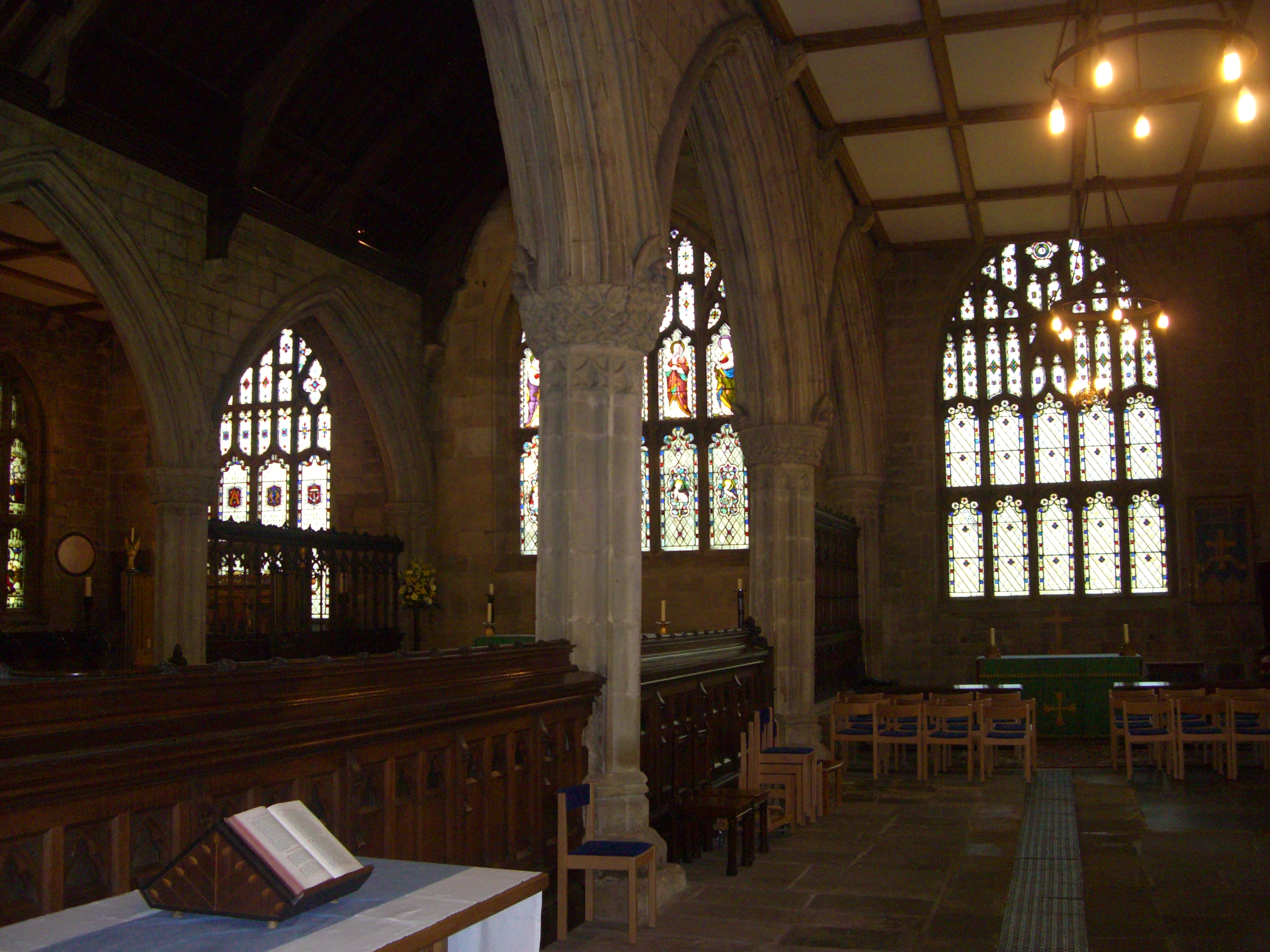 The interior of St Michael's Church, Alnwick, Northumberland